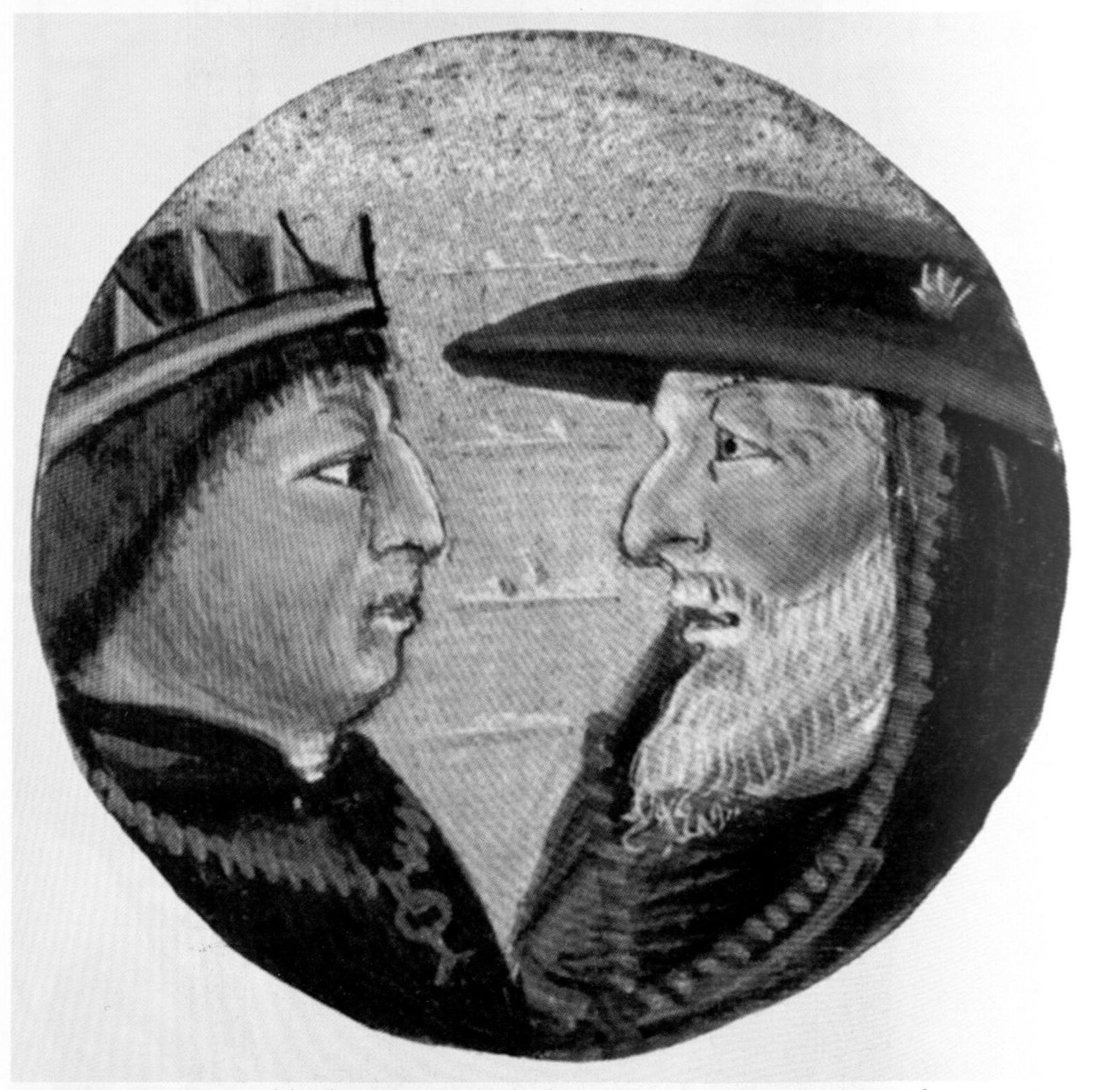 Cardinal Bessarion (right) and King Alfonso V of Aragon. Book illumination in the manuscript Paris, Bibliothèque Nationale, Lat. 12946, fol. 29r.